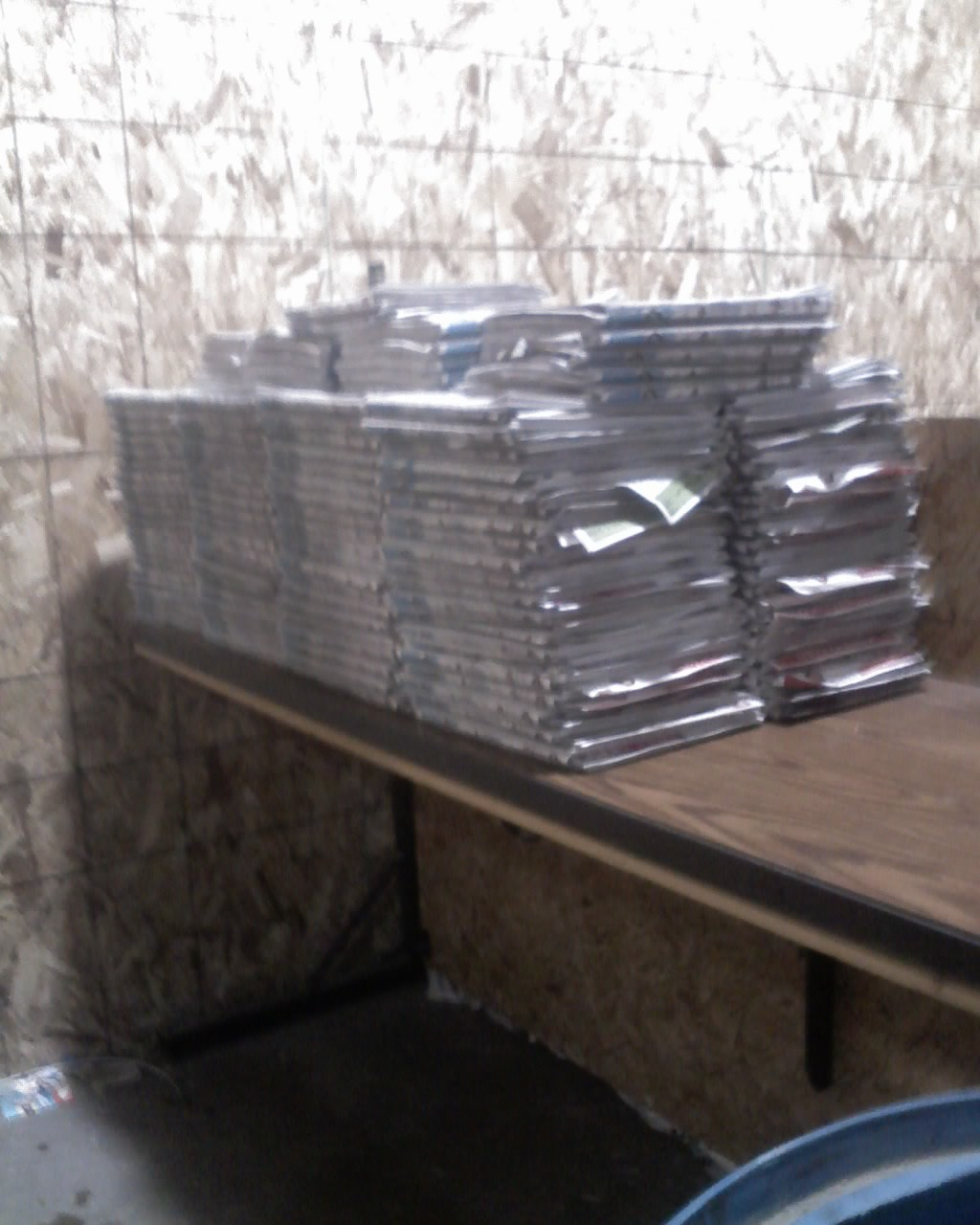 Star Tribune Assembly Process. Kiswahili: Star Tribune Mchakato wa uchapishaji.